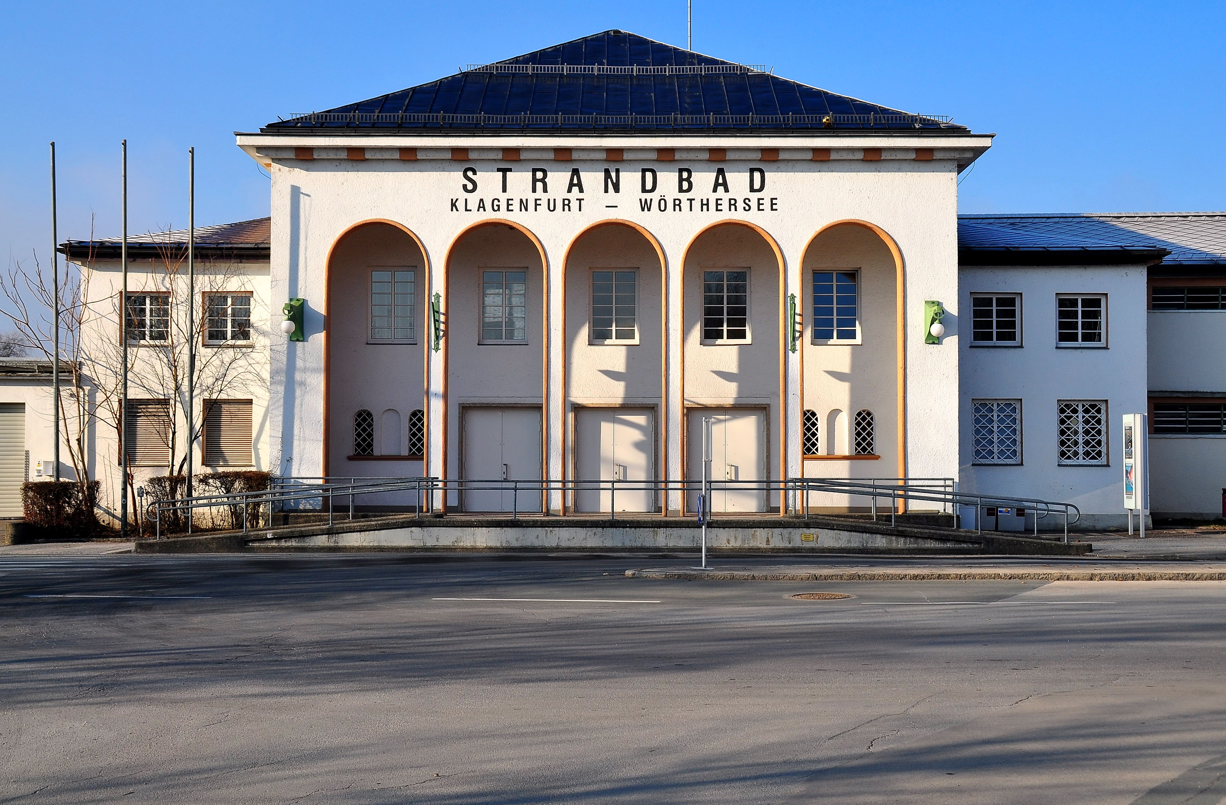 Entrance building from the year 1927 (architects F. Koppelhuber und P. Theer) to the beach in Gurlitsch, 12th district “Saint Martin”, capital Klagenfurt, Carinthia, Austria, EU